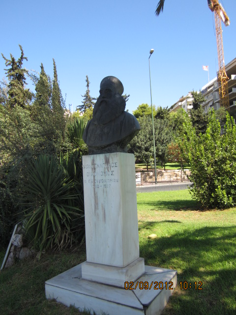 Bust of Konstantin Oikonomou (1780-1857) in athens